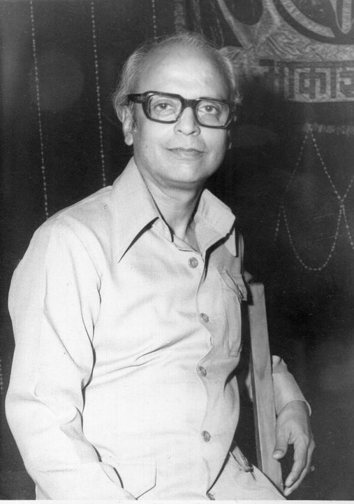 KC Sharma at work as DG AIR, He wrote over 20 books in the Hindi language